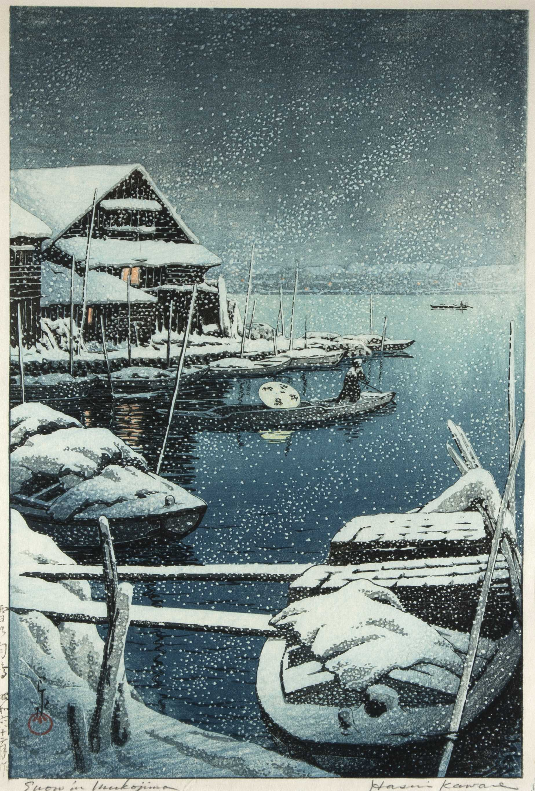 Woodblock print